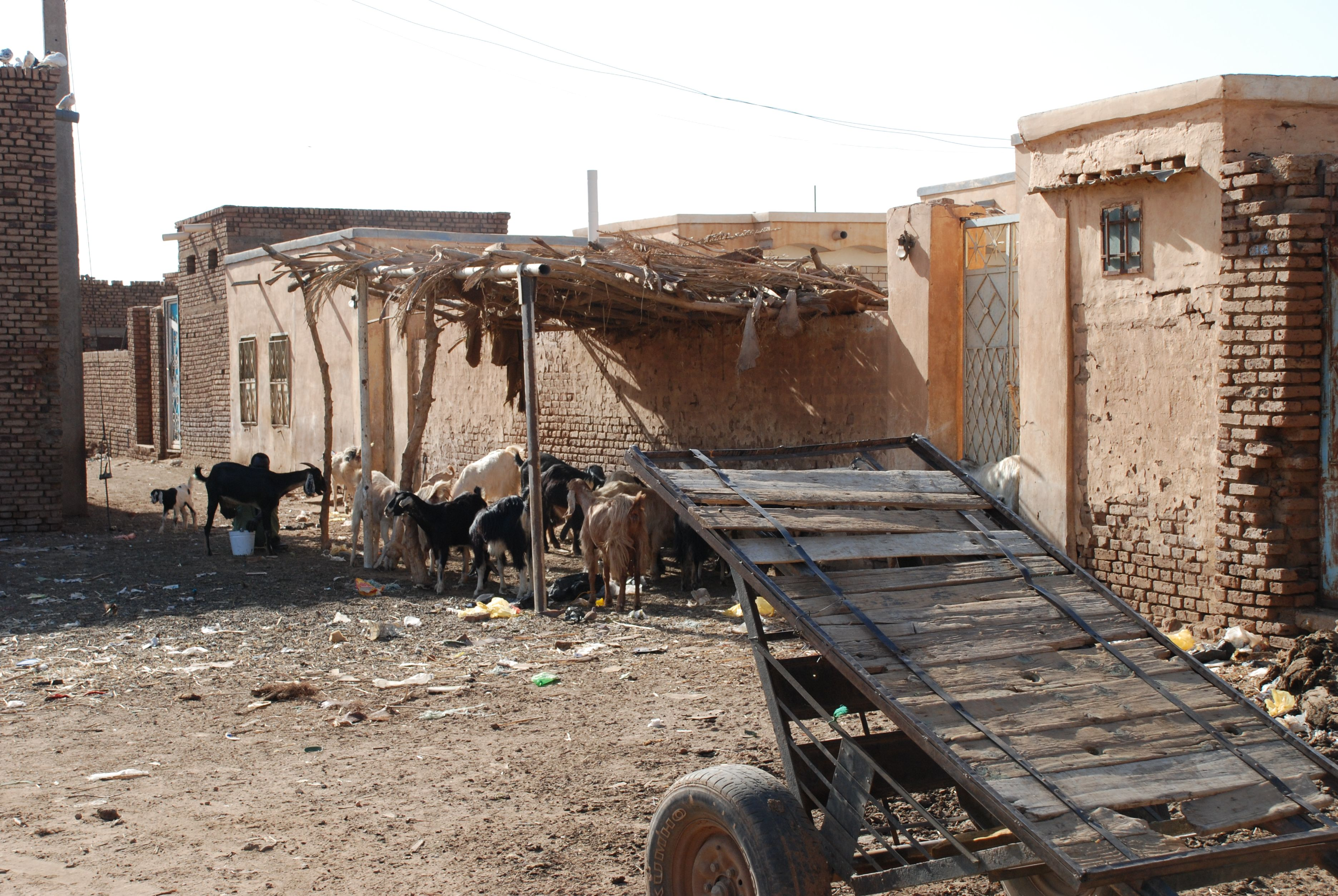 Center of village on Tuti Island - near Khartoum, Sudan.